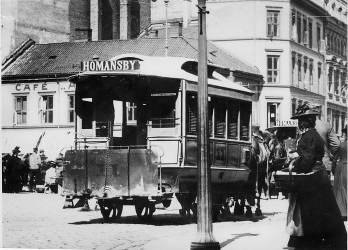 Kristiania Sporveisselskab horsecar in Kiregata.